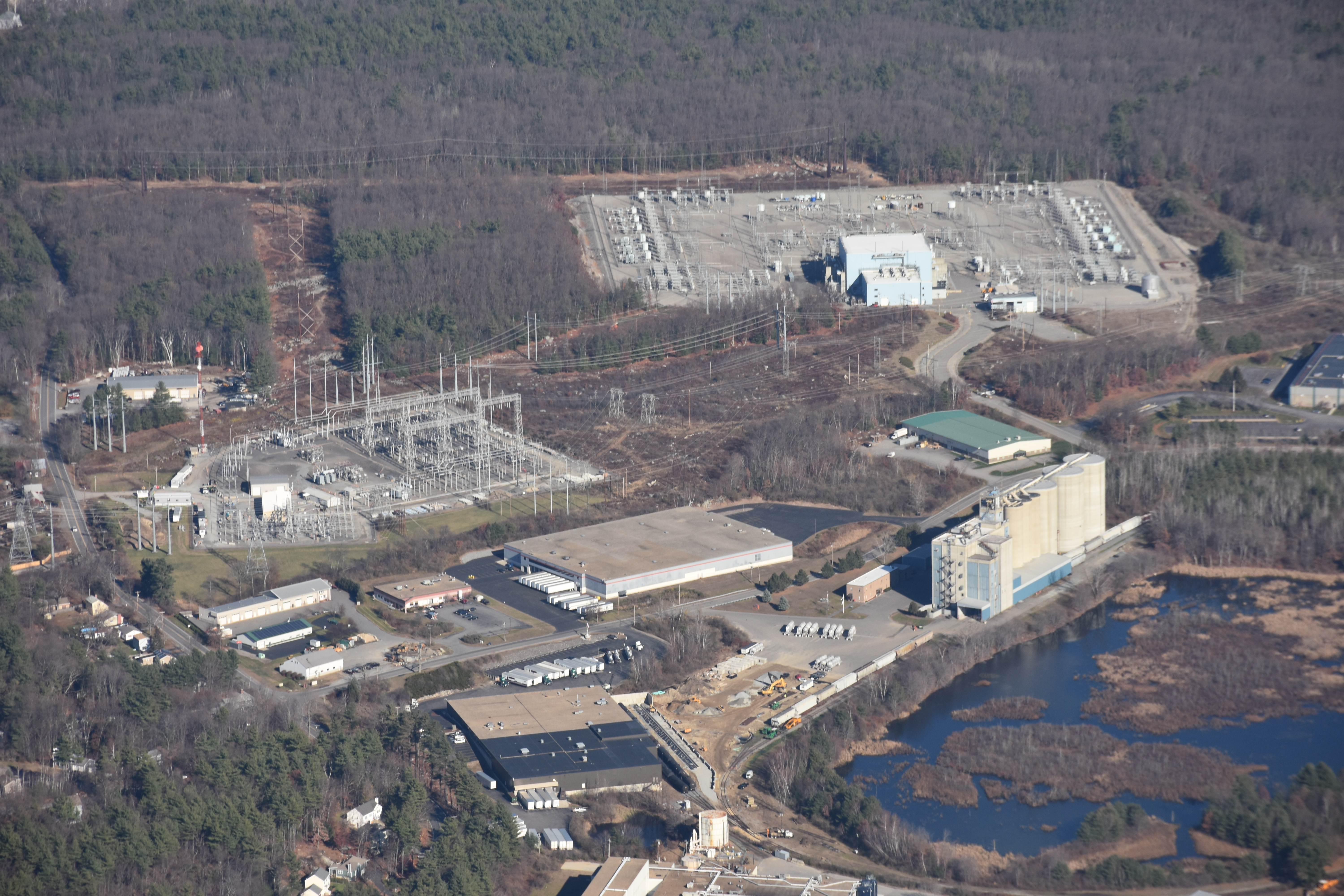 Aerial view of Sandy Pond load station, an electrical converter station in Ayer, Massachusetts.